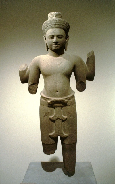 Bodhisattva Lokesvara (or Avalokiteśvara) statue, Cambodia, 12th century. Musée Guimet, Paris, France.